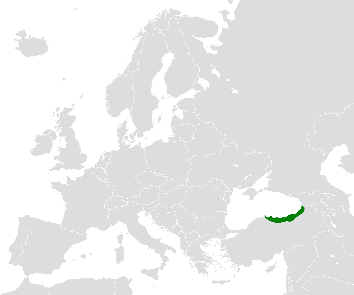 Map of Europe showing location of Pontus region.